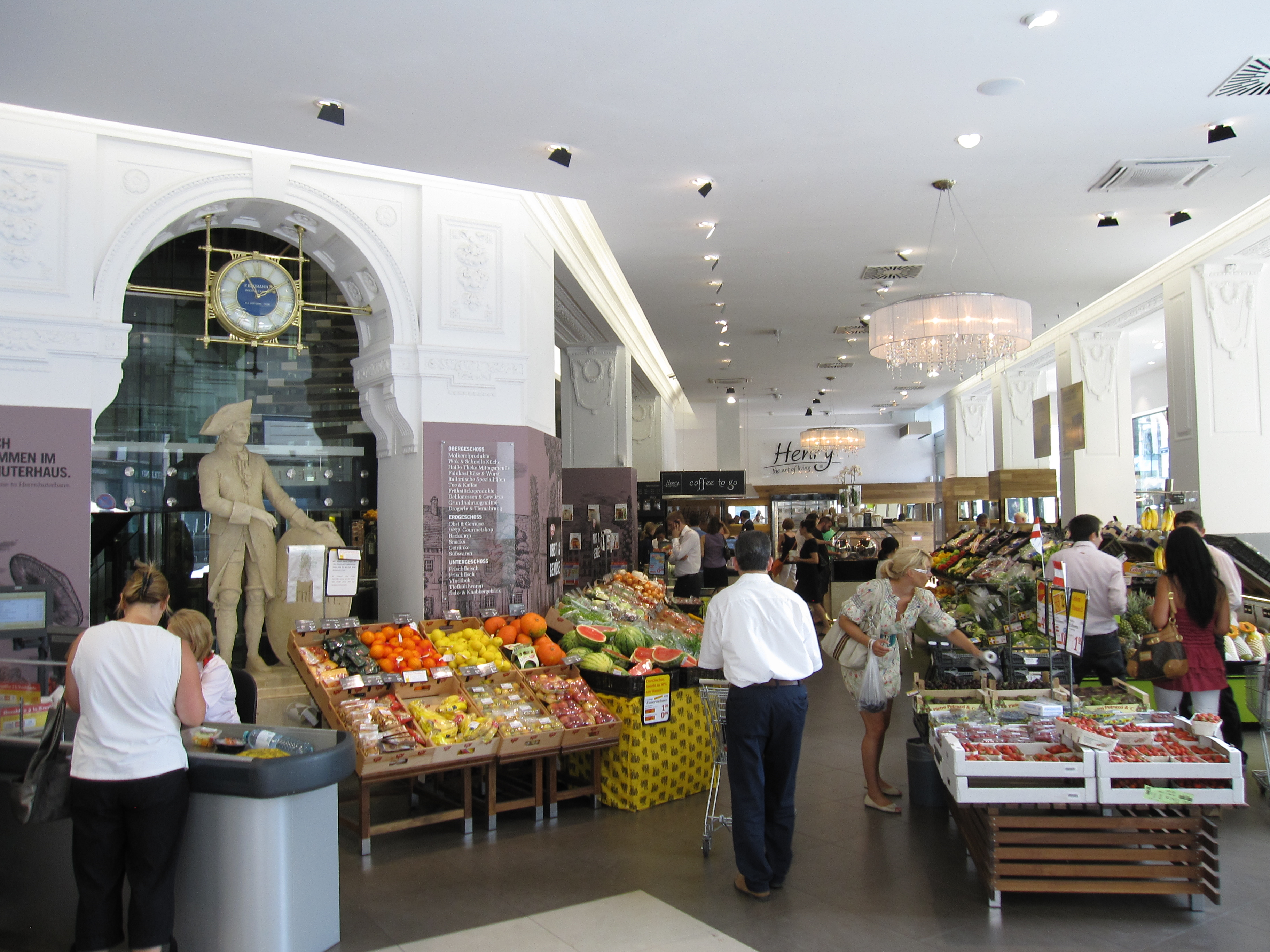 Interior of the Herrnhuterhaus at Neuer Markt 17 in Vienna's district I. Formerly the clothes chain Fürnkranz used to be located here until 2009, since 2010 the grocery chain Billa Corso.